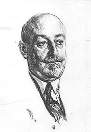 Fernand Bouisson.